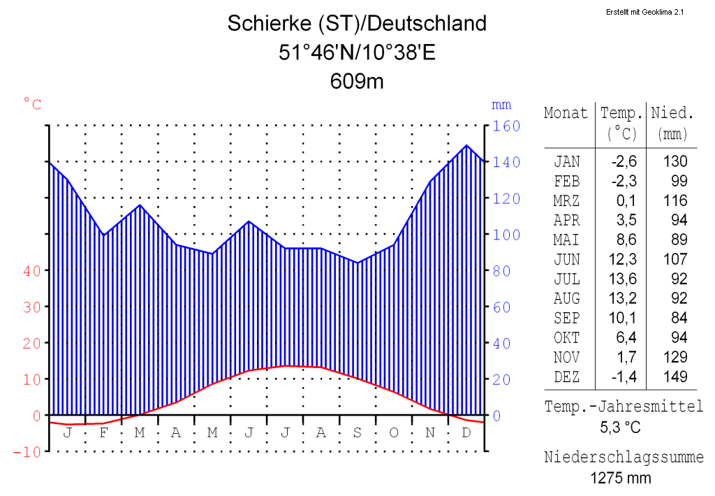 climate chart in the format by Walter and Lieth, metric, °Celsisus and millimeters, made with Geoklima 2.1